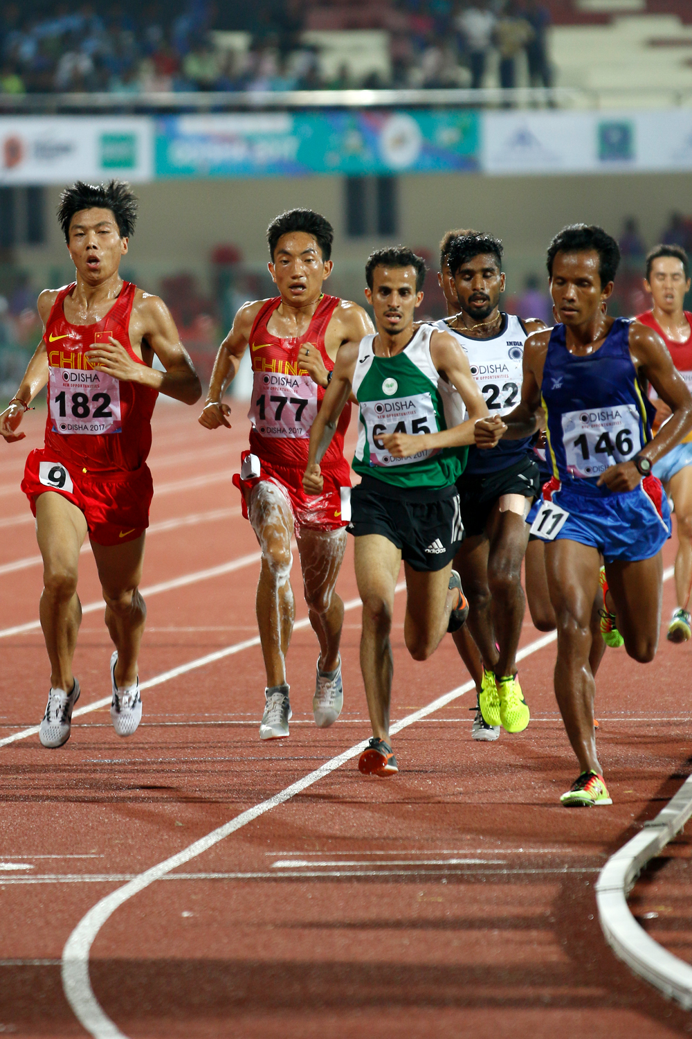 Athletes during 22nd Asian Athletics Championships in Bhubaneswar.